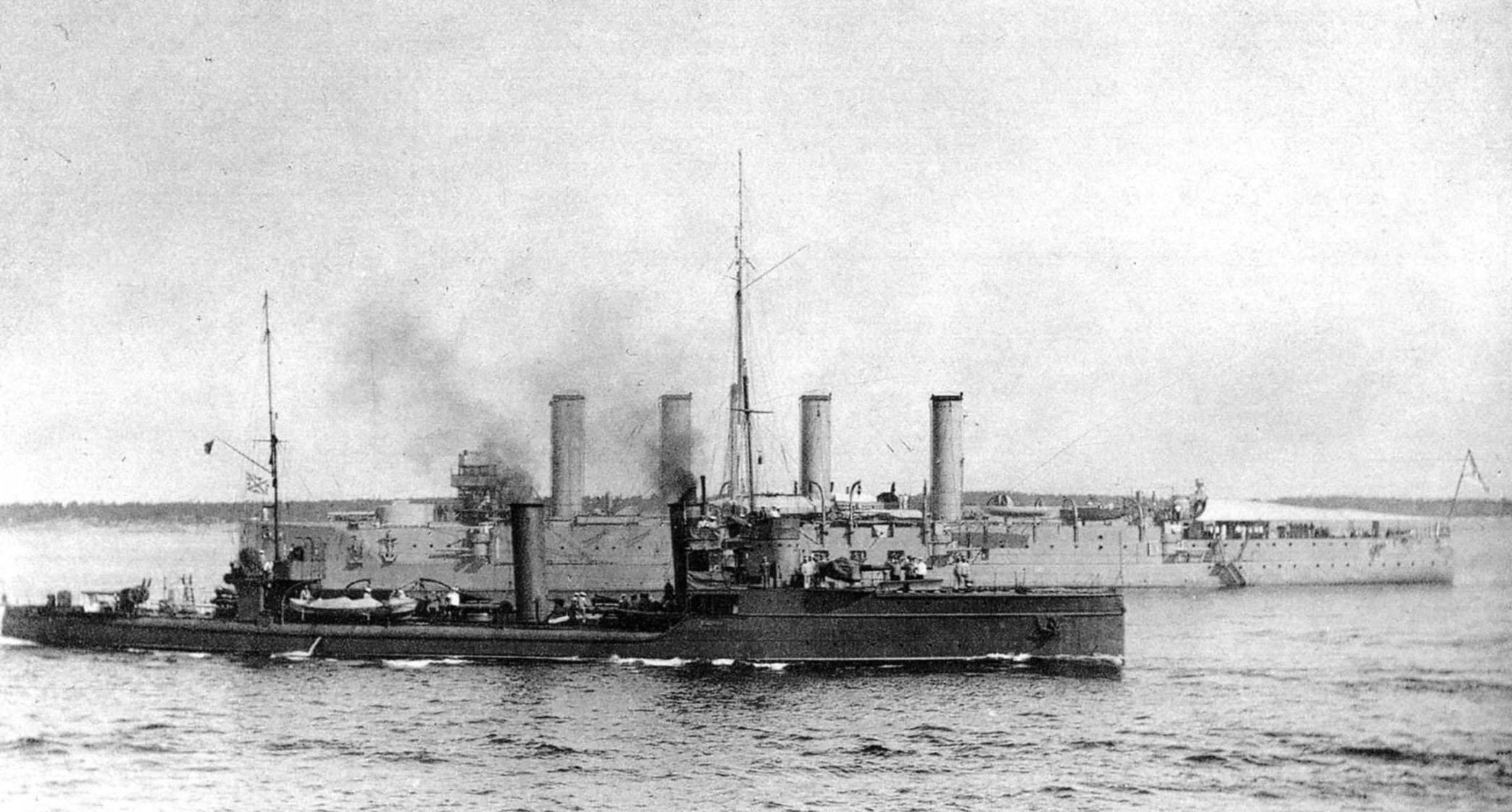 Imperial Russian armoured cruiser Admiral Makarov and Vsadnik class destroyer, 1909-1911.